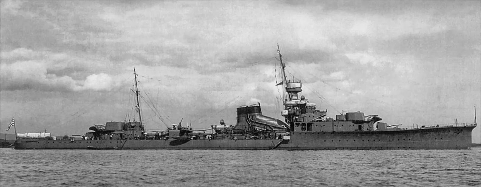 The japanese light cruser Yubari probadly early in 1932 as flagship DesRon 1.